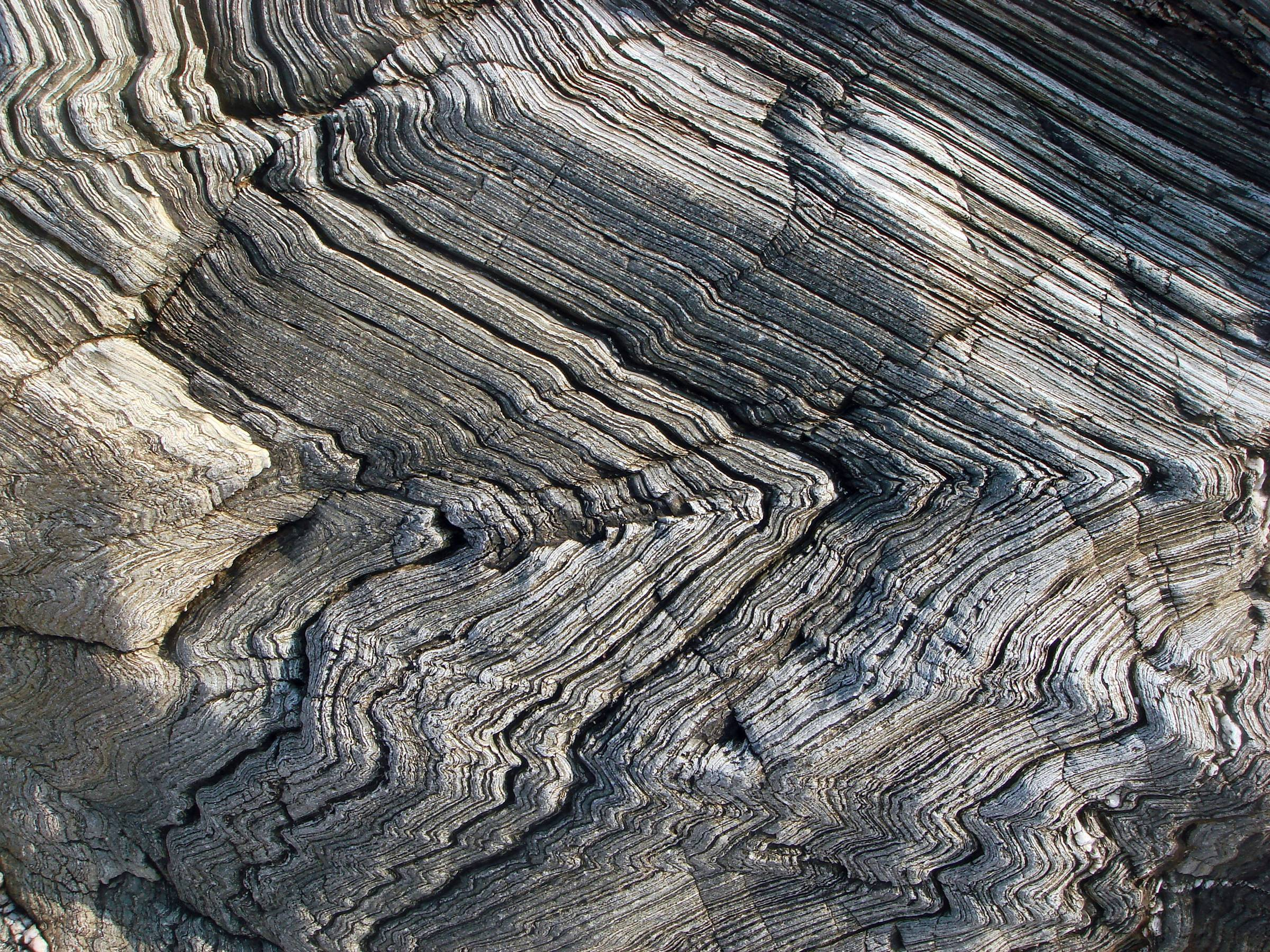 Folded layers of quartzite and metatuff of the Belle-lle-en-Mer Group of rocks, on the beach near Bordardoué on the island of Belle Île, off the southern coast of Brittany in France. The outcrop is about 50 centimetres wide.